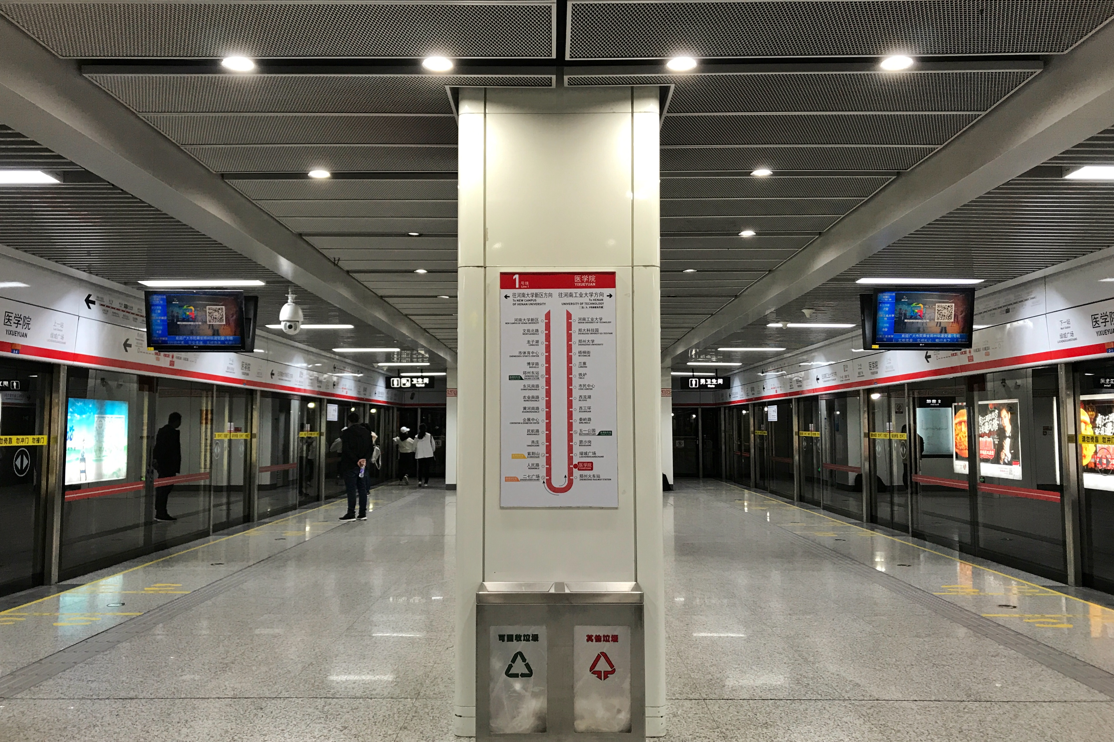 Platform of Yixueyuan Station